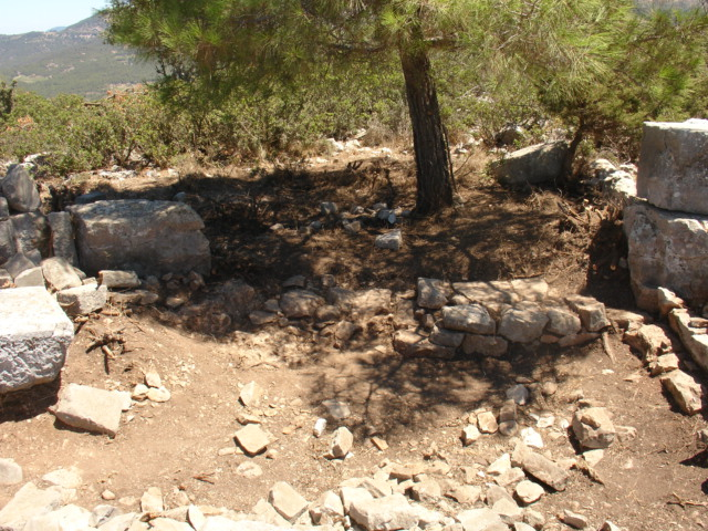 Temple in Acropolis of St Phokas-Kymisala